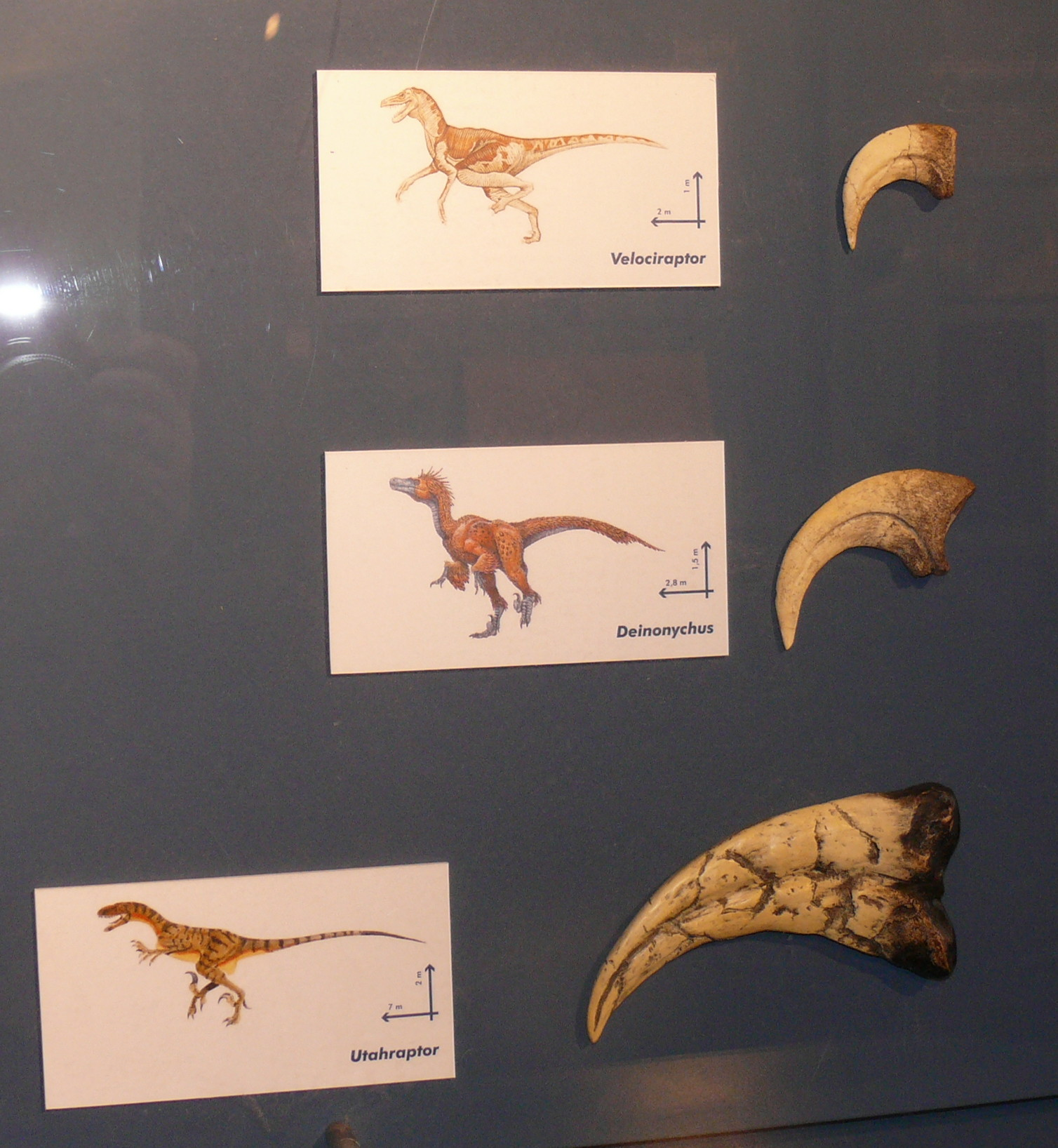 Claws-Velociraptor-Deinonychus-Utahraptor